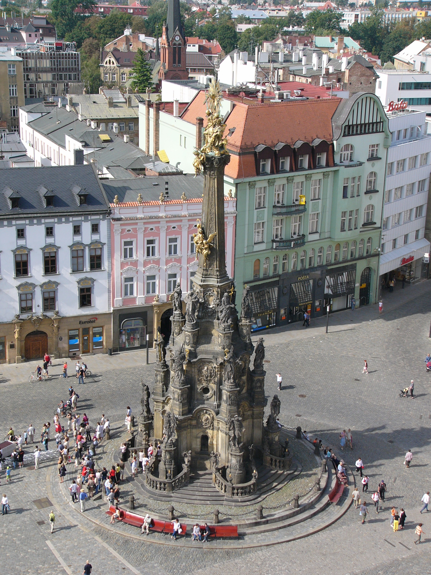 Holy Trinity Column in Olomouc (Czech Republic).